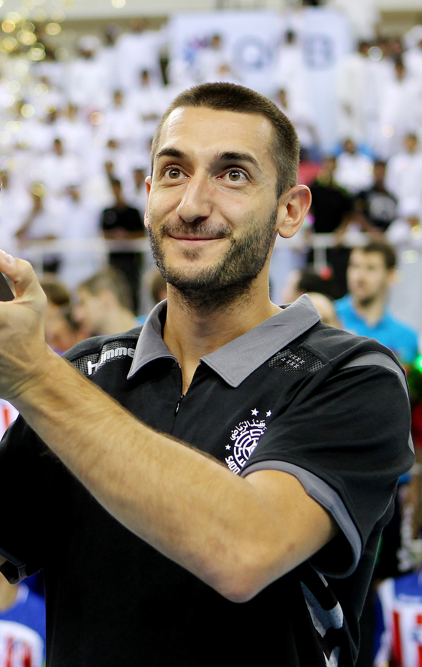 Al Sadd's Dragan Gajic raises his 'best player' trophy after the IHF Super Globe final at the Al Gharafa Indoor Hall in Doha. Picture by Mohan